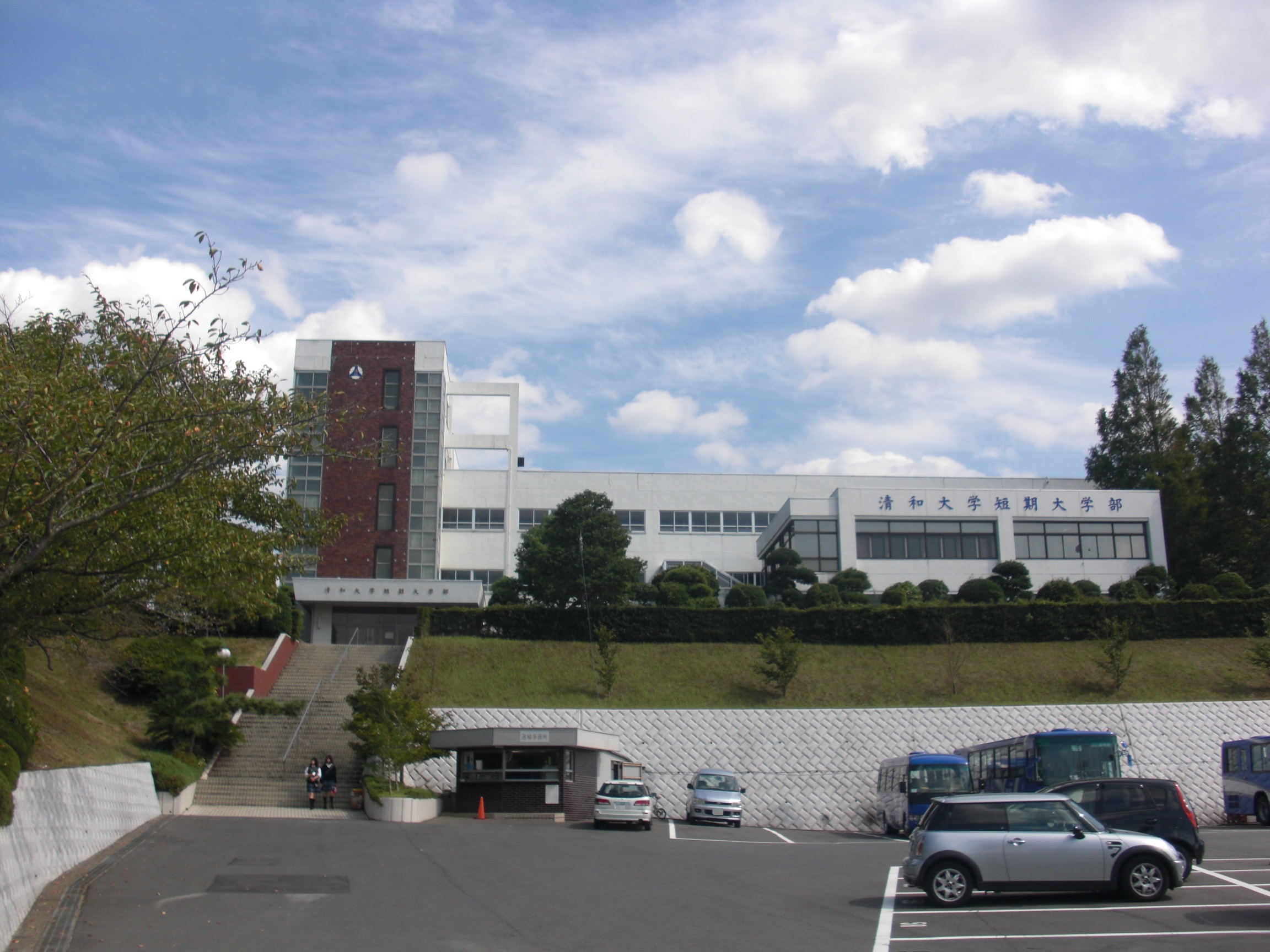 This is a college in Chiba prefecture, Japan.